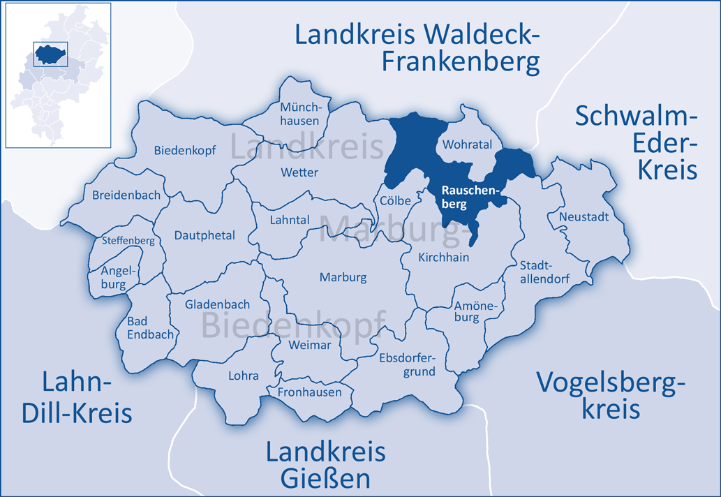 The map shows the municipal territory of Rauschenberg in the district of Marburg-Biedenkopf